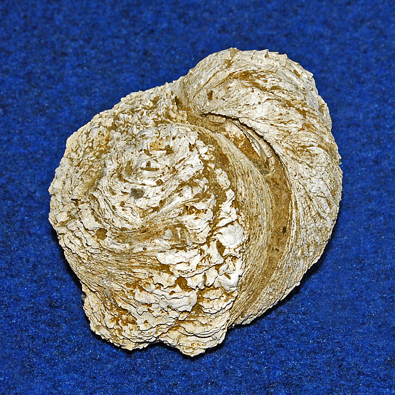 Fossil shell of Chama gryphoides, on display at the Museo Paleontologico, Asti